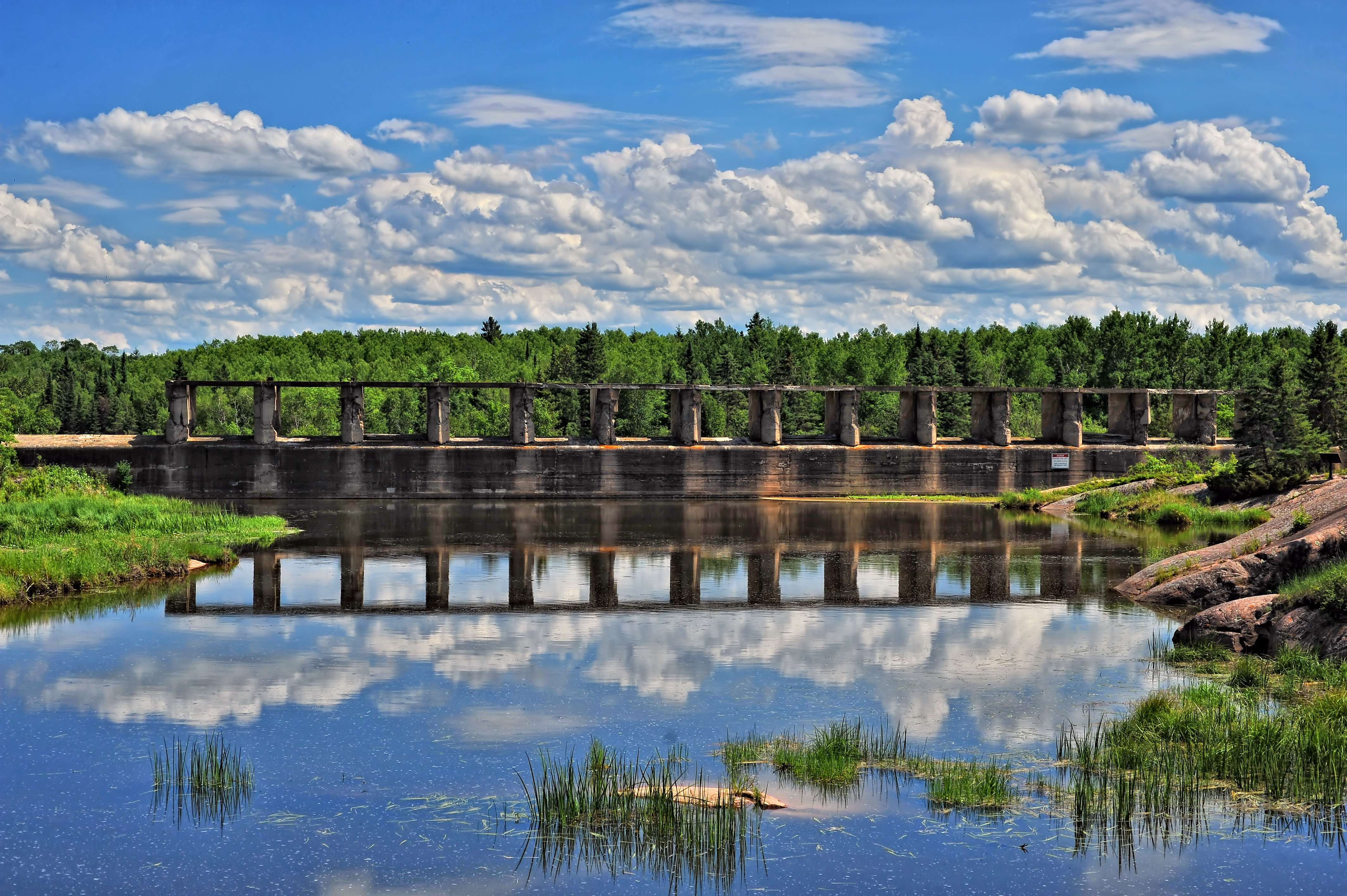 Pinawa Dam